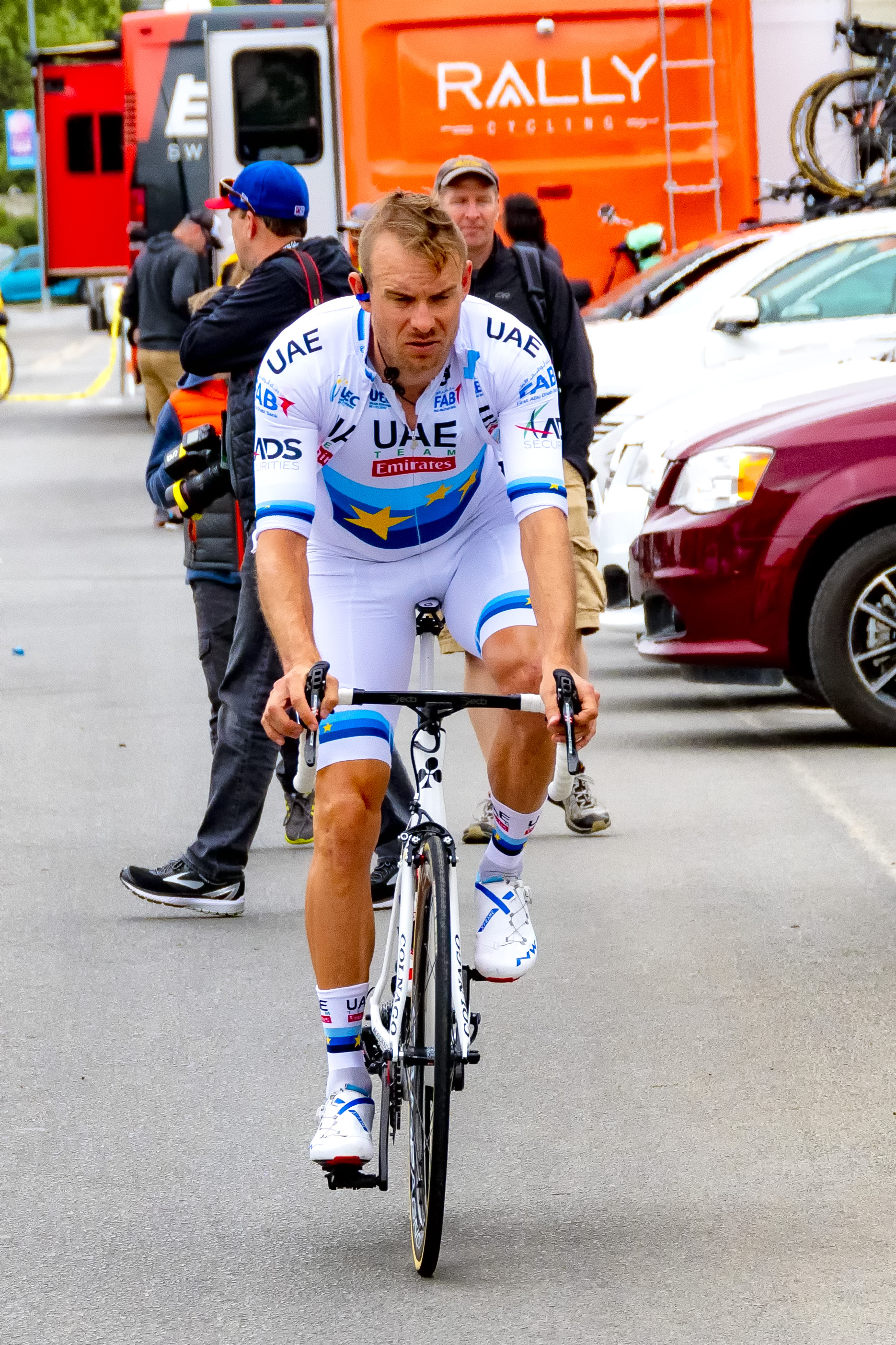 Amgen Tour of California 2018 Stage 3 King City to Laguna Seca UCI World Tour